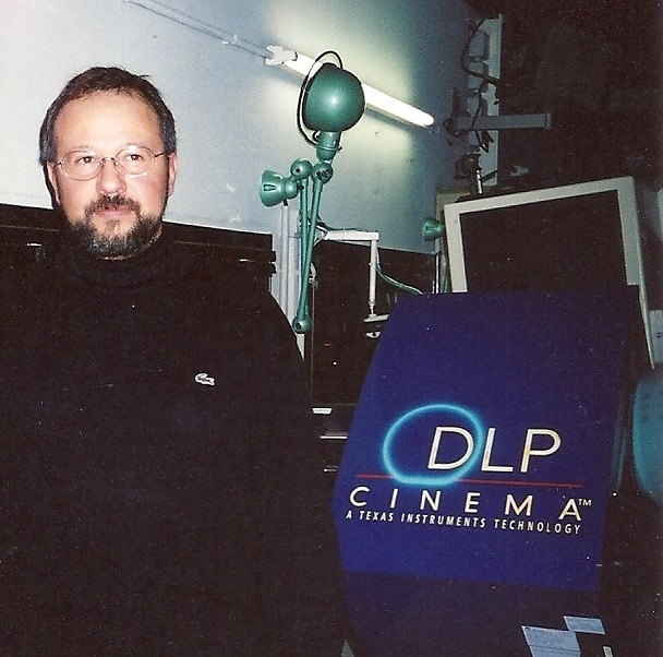 Texas Instruments, DLP Cinema Prototype System, Mark V, Paris, 2000 - Philippe Binant Archives.